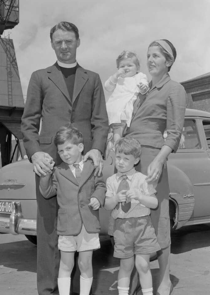 Reverend I J Botting and family